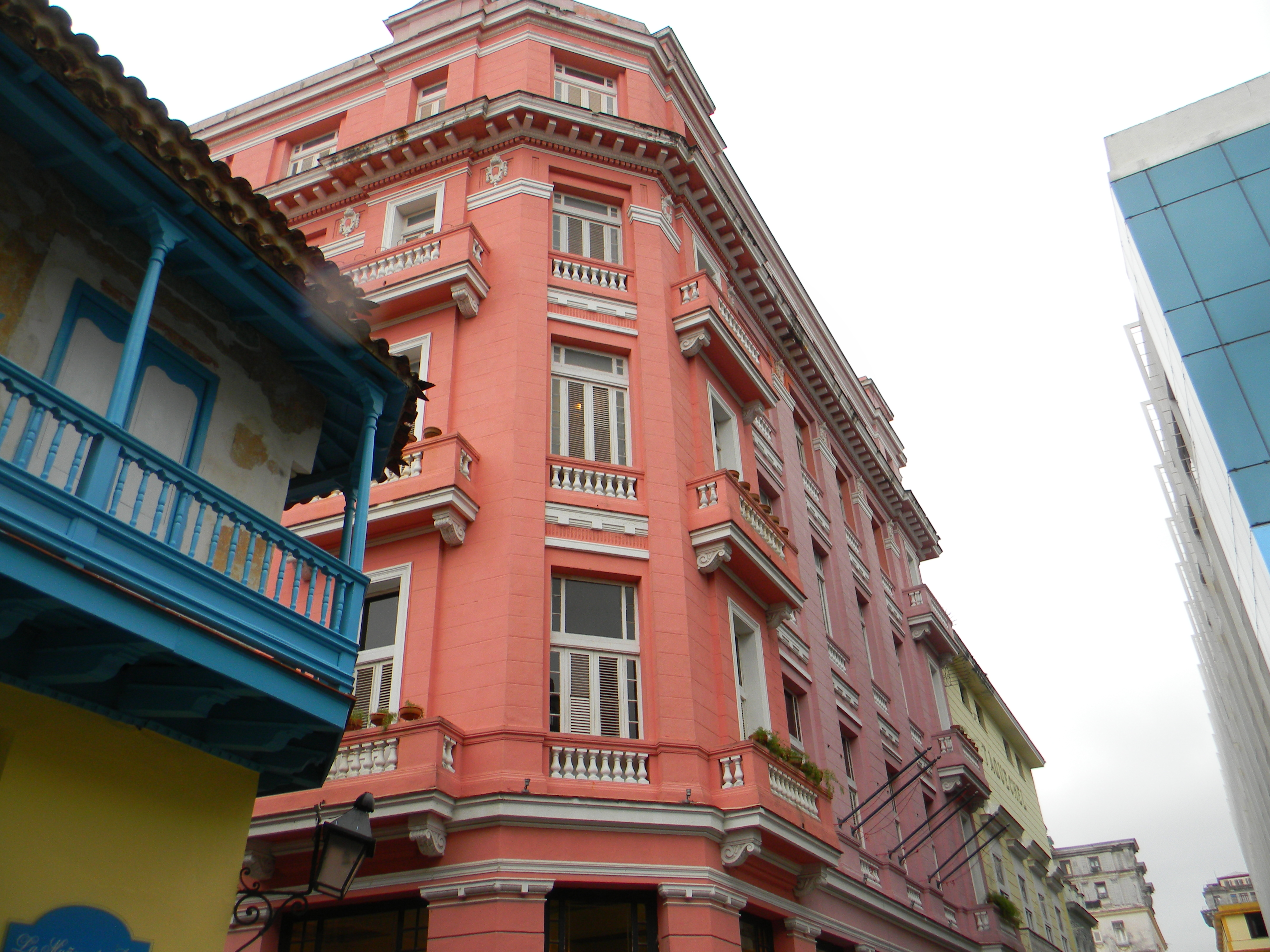 Ernest Hemingway, Hotel Ambos-Mundos room in Havana (Top floor), Cuba, Where Hemingway wrote 'For Whom the Bell Tolls'.